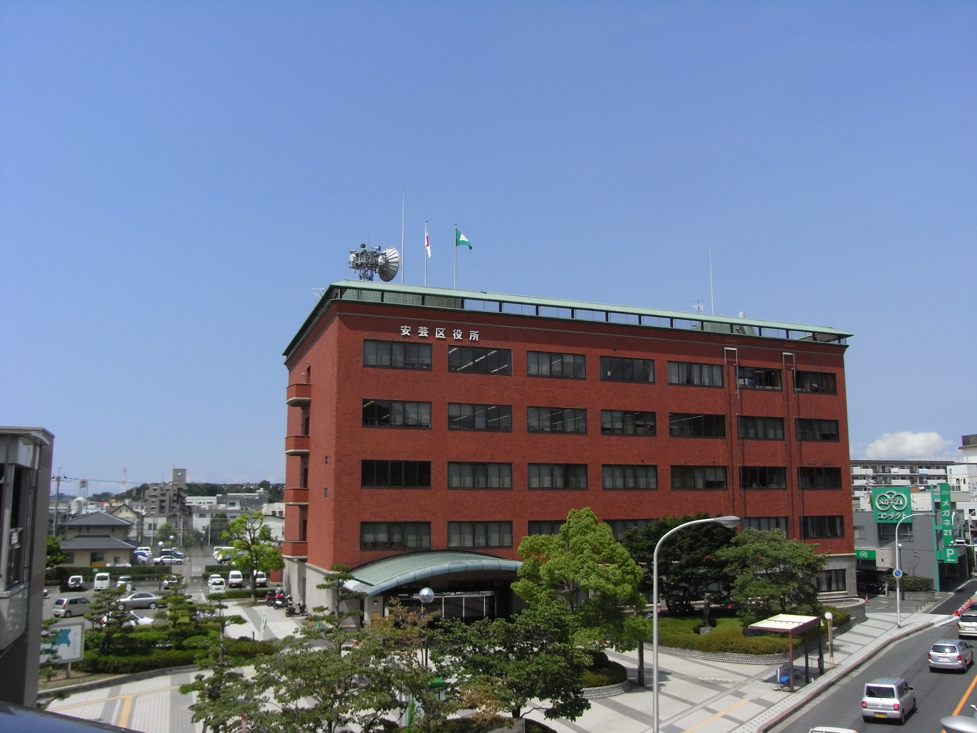 Aki Ward Office in Hiroshima City, Hiroshima Prefecture, Japan